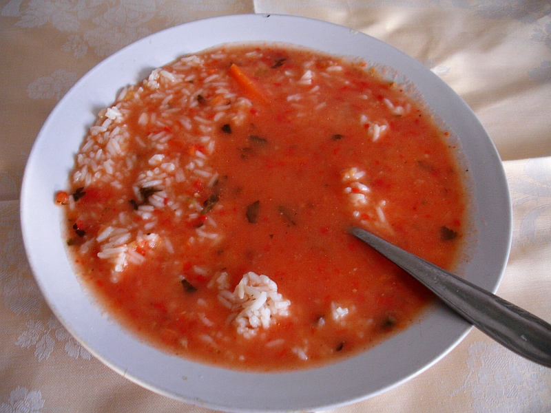 Tomato rice soup